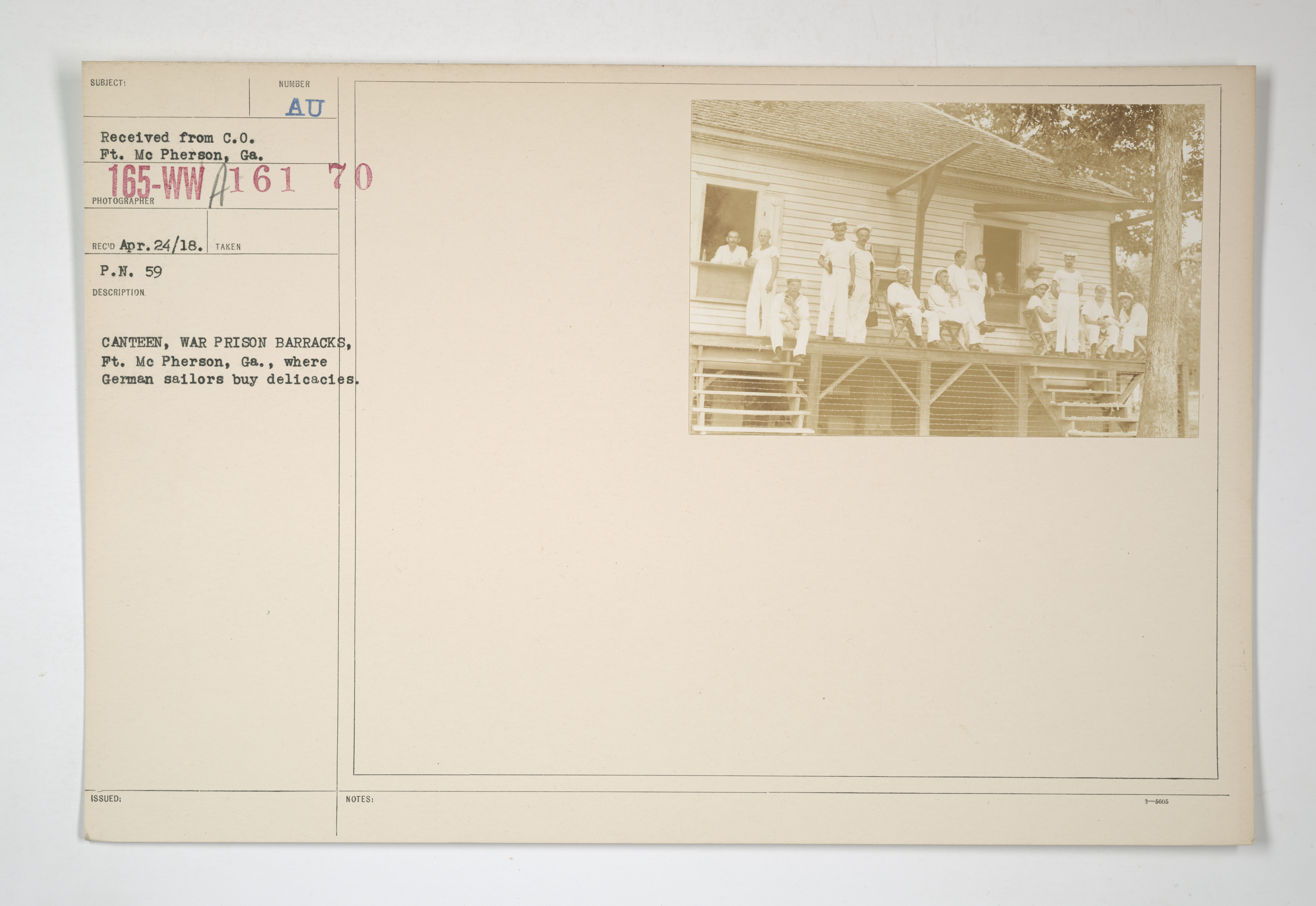 Scope and content: Photographer: Commanding Officer, Fort McPherson, Georgia